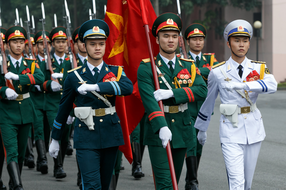 Working visit of Russian Defense Minister Sergei Shoigu to Vietnam.